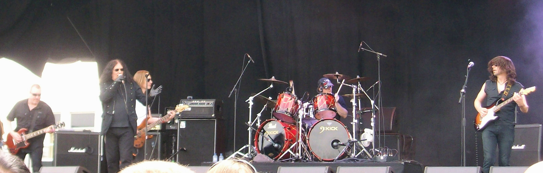 The English heavy metal band Satan playing live at the Alcatraz Festival in Kortrijk, Belgium, 2013